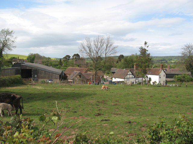 West Farm, near to Aston Eyre, Shropshire, Great Britain.